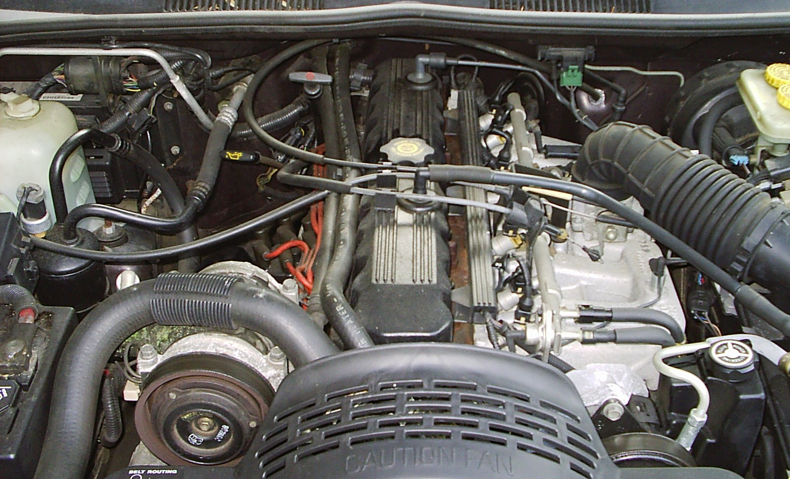 The engine (4.0 liter straight-six) bay of a 1993 Jeep Grand Cherokee (ZJ). This luxurious sport utility (SUV) is finished in Metallic Blackberry (paint code: PM9), a deep burgundy. Equipment includes the Laredo 26F package and the Quadra-Trac full-time system. This is an early production ZJ model that was built in April 1992.